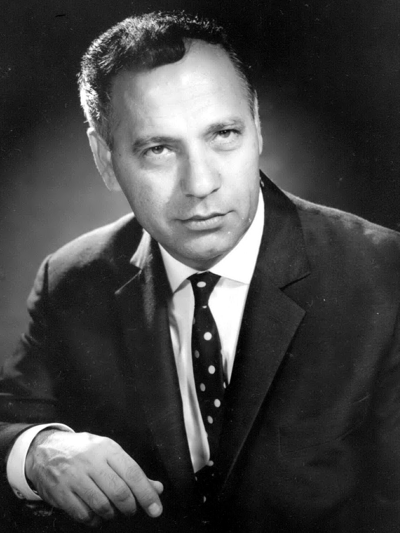 Manuchehr Shaybani